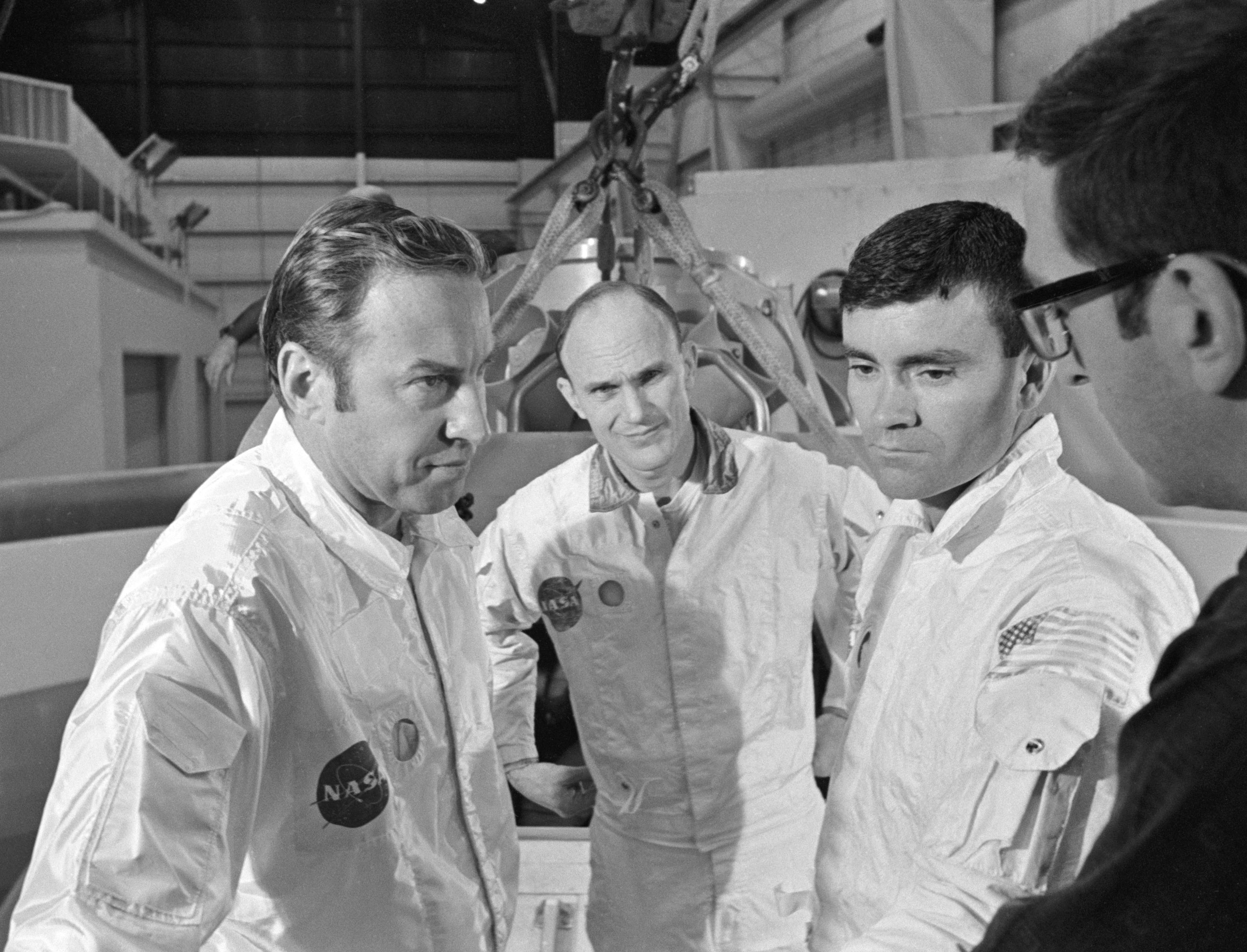 Apollo 13 prime crewmembers during water egress training Description: The three prime crewmembers of the Apollo 13 lunar landing mission stand by to participate in water egress training in a water tank in bldg 260 at the Manned Spacecraft Center. They are (left to right) Astronauts James A. Lovell Jr., commander; Thomas K. Mattingly II, command module pilot; and Fred W. Haise Jr., lunar module pilot.